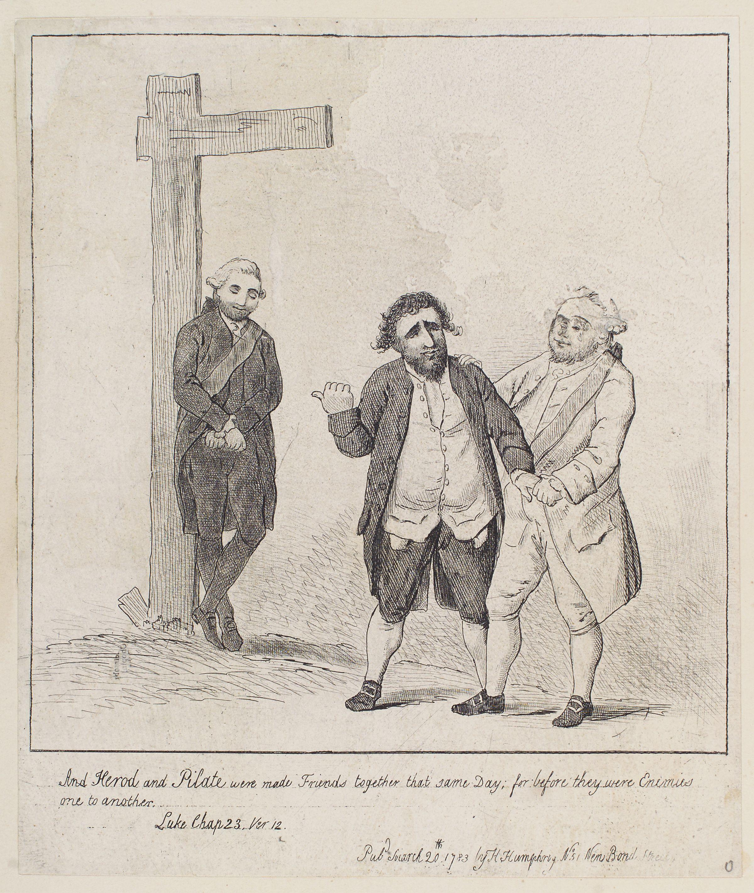 All images in this batch have been confirmed as author died before 1939 according to the official death date listed by the NPG.